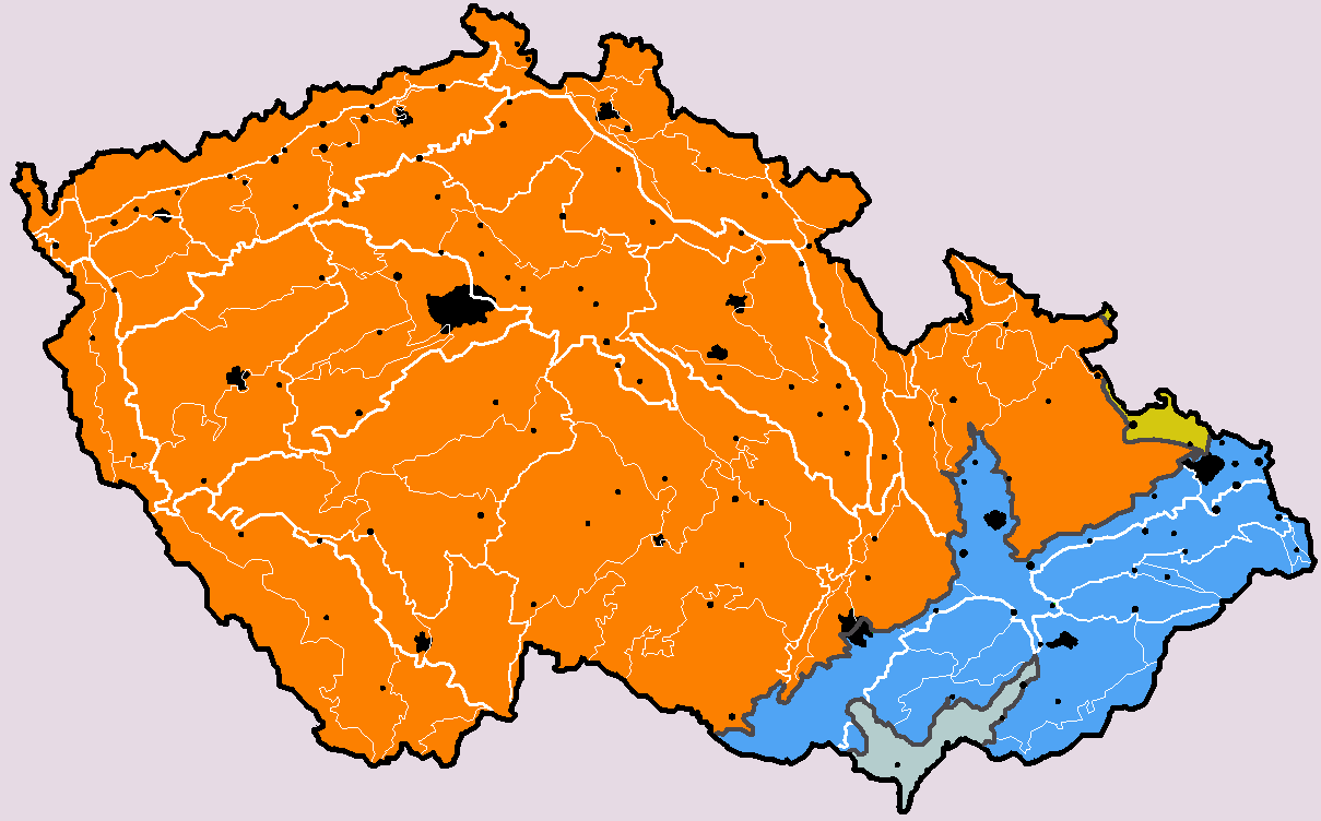 Map of geomorphological division of the Czech Republic with coloured geomorphological provinces (first-level division of the country). geomorphological system geomorphological subsystem geomorphologica province Hercynian System Hercynian Mountains I BOHEMIAN MASSIF Epihercynian Plains II MIDDLE-EUROPEAN PLAIN Alpine-Himalayan System Carpathians III WESTERN CARPATHIANS Pannonian Plain IV WESTERN PANNONIAN BASIN